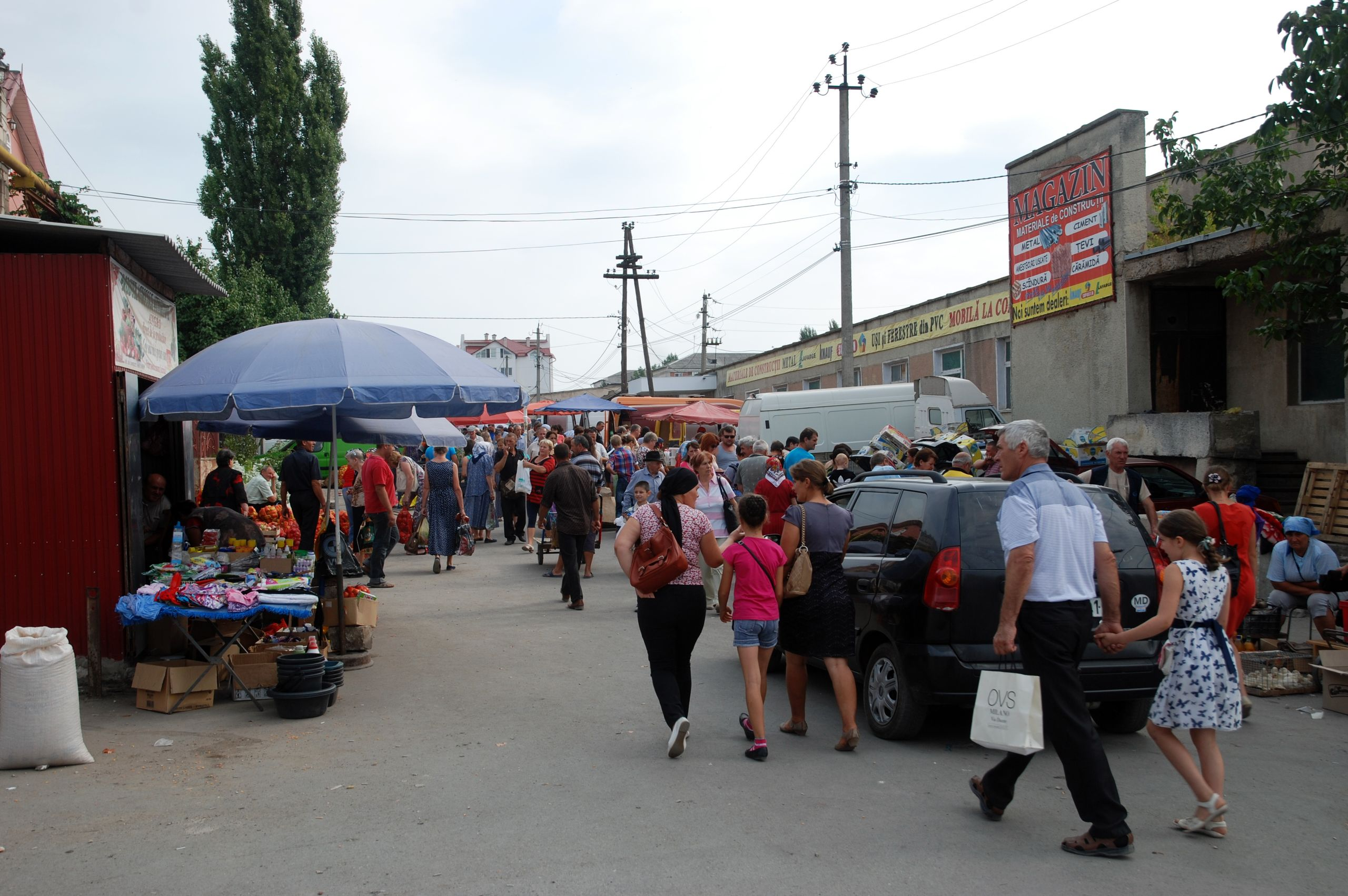 Edineț, market